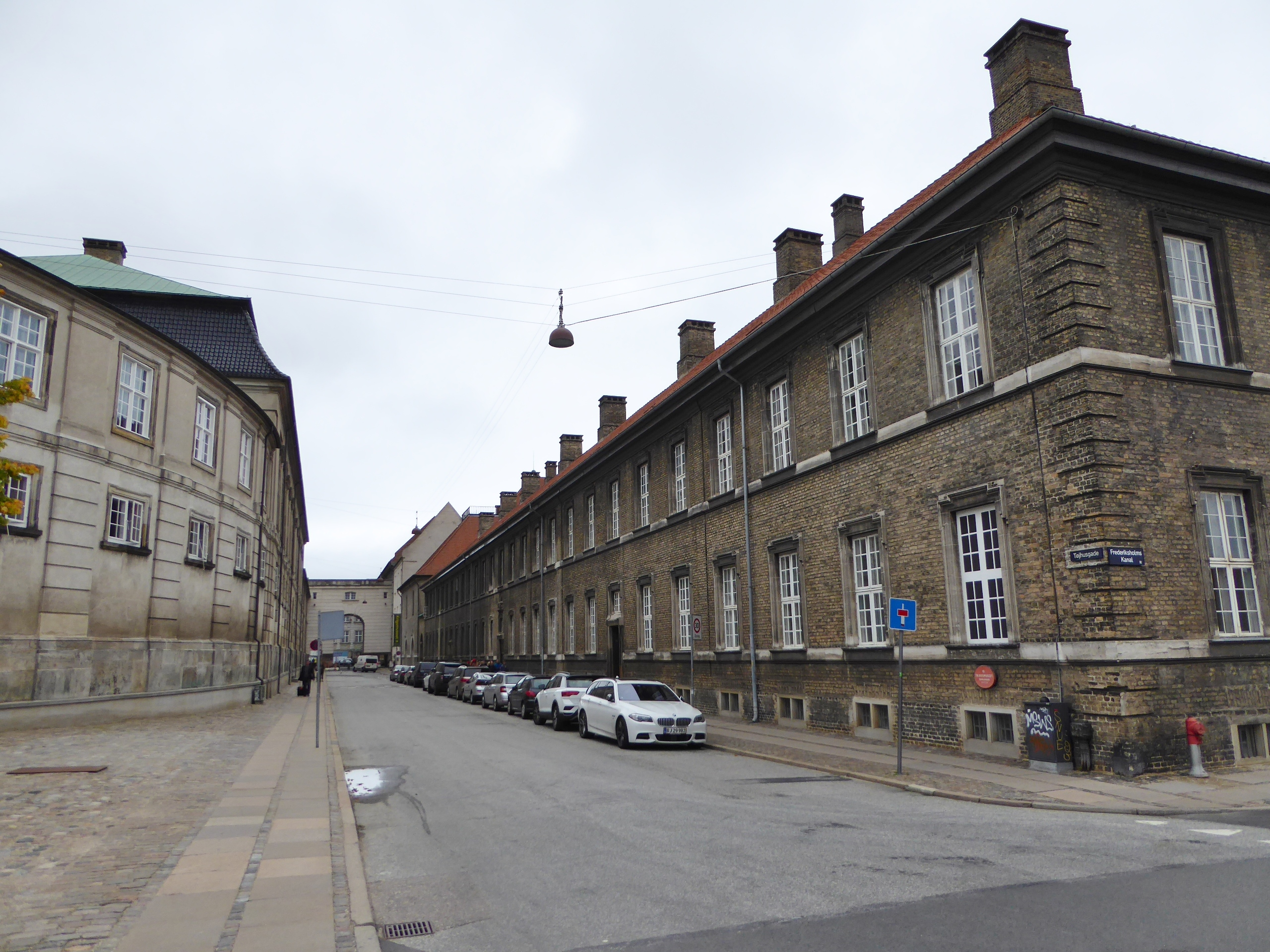 The street Tøjhusgade on Slotsholmen in Copenhagen. The building at the right is Staldmestergården Undervisningsministeriet (the Ministry of Education) and Kirkeministeriet (the Ministry of Church) are situated here.